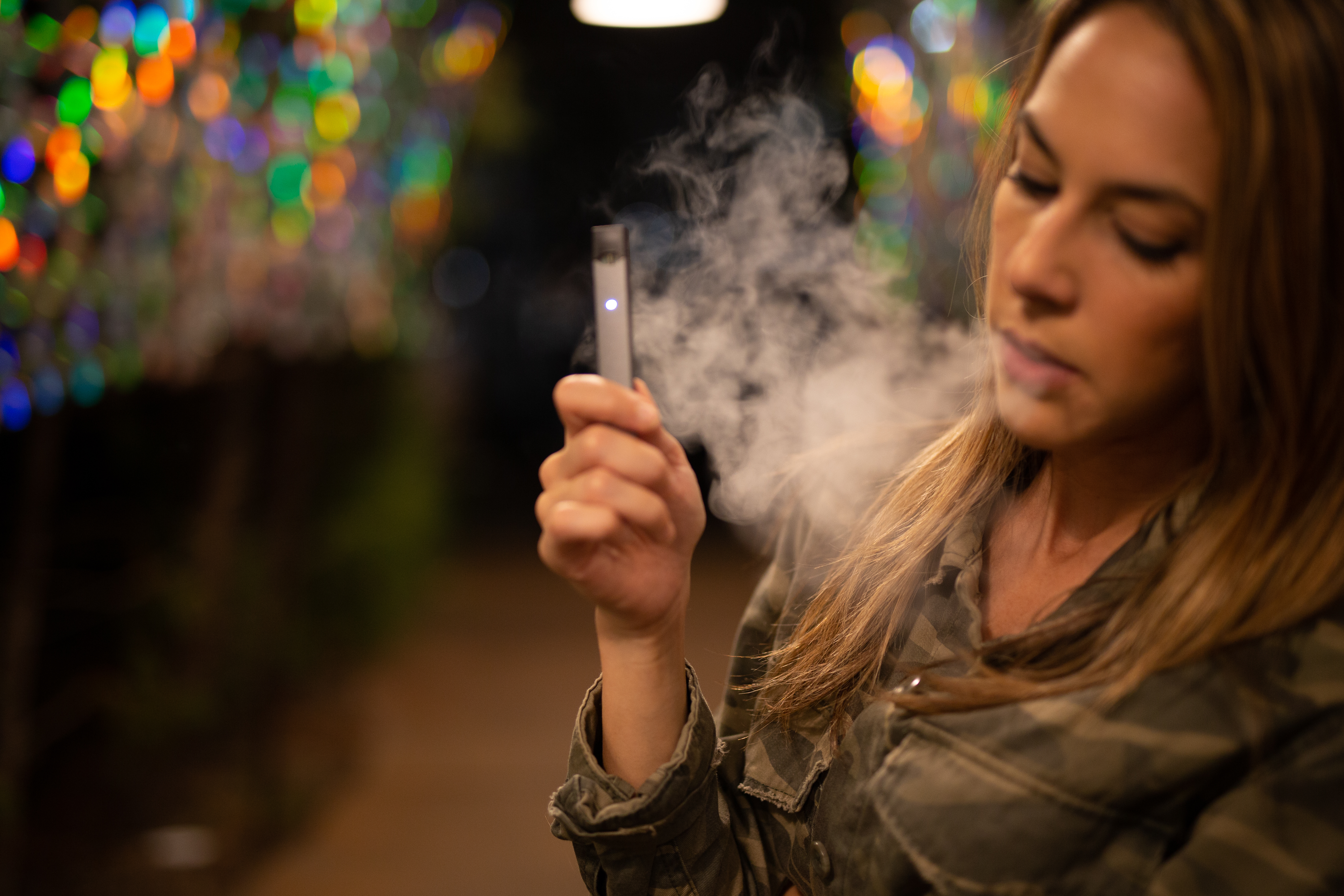 If you used this image under creative commons, please link to